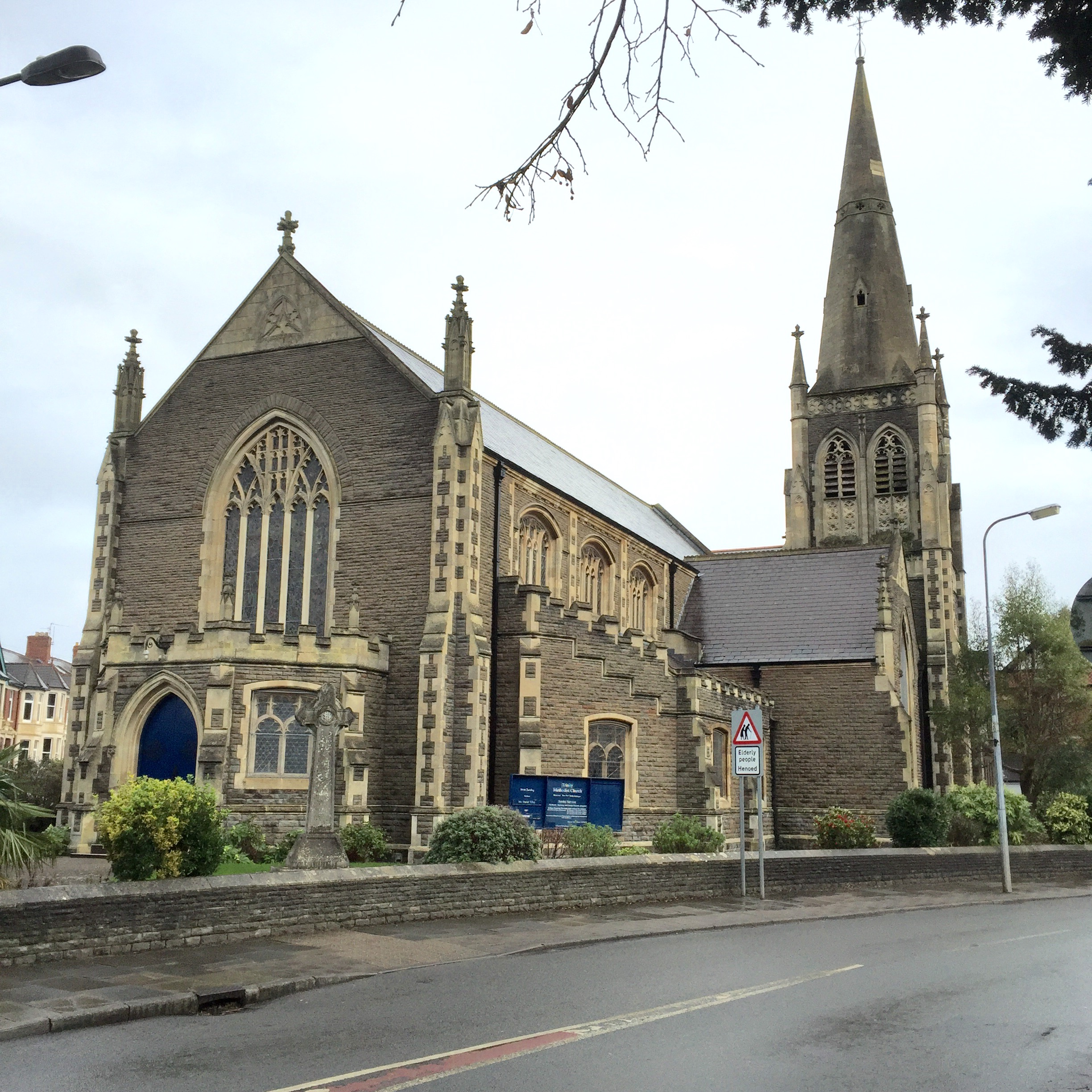 Creative Commons: geograph-4791435-by-Alan-Hughes